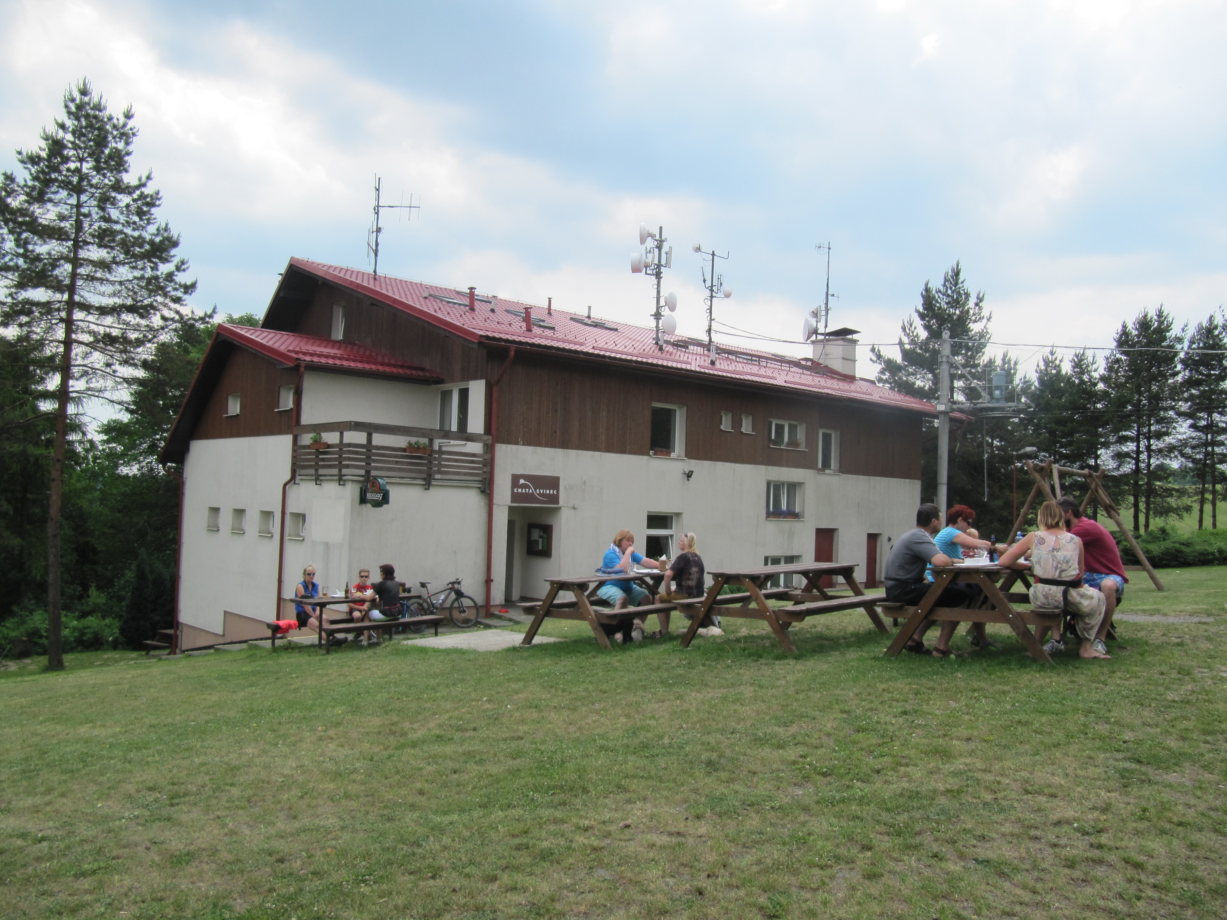 Nový Jičín, Czech Republic, part Kojetín.